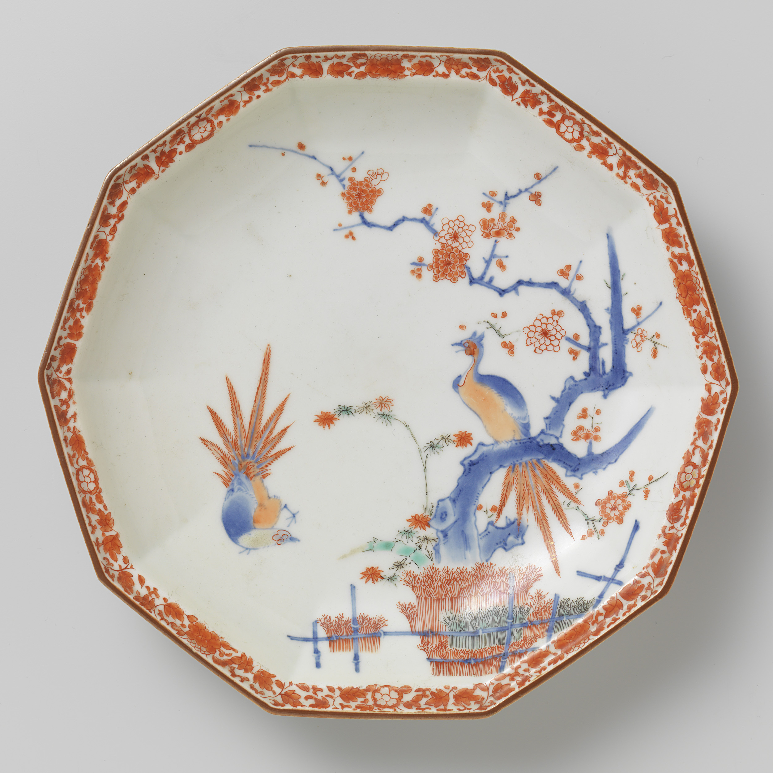 Edo period dish, kakiemon, decagonal border, decorated with a bird of paradise sitting on a flowering prunus branch. At the bottom a number of brushwood fences. Marked with a blue seal.